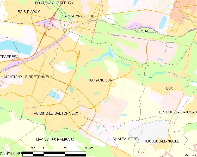 Map of French municipality Guyancourt